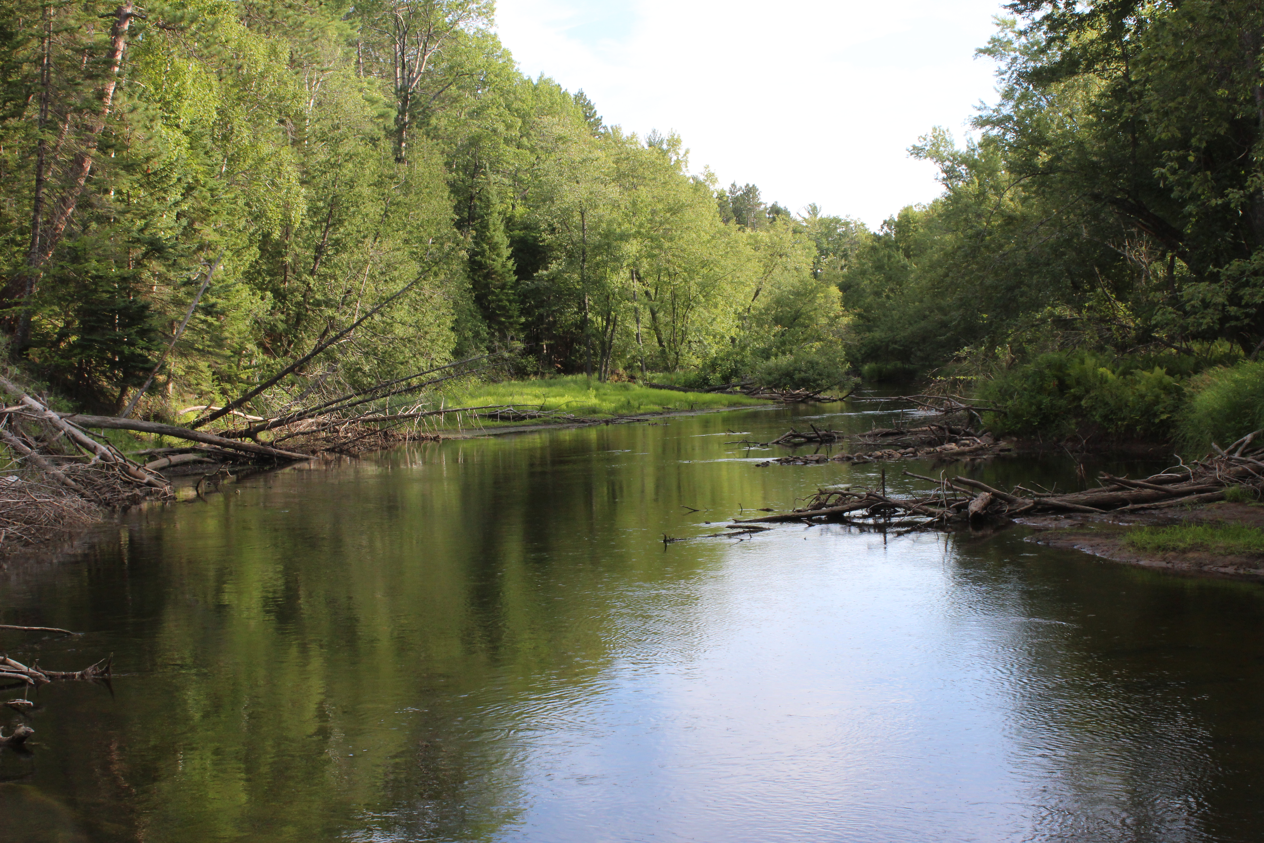 A shot of Black River in Cheboygan County.